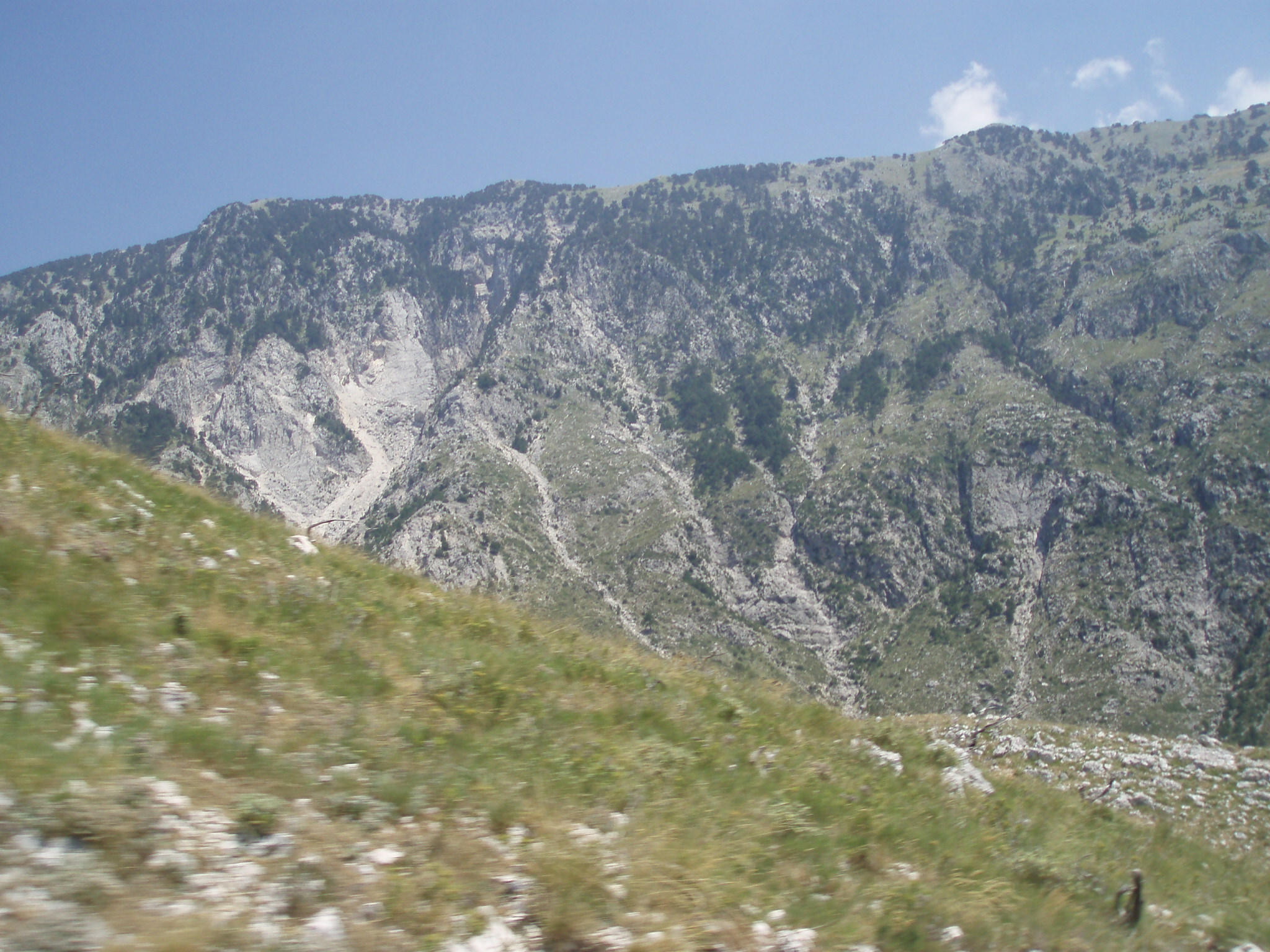 Llogara in Himara, Albania